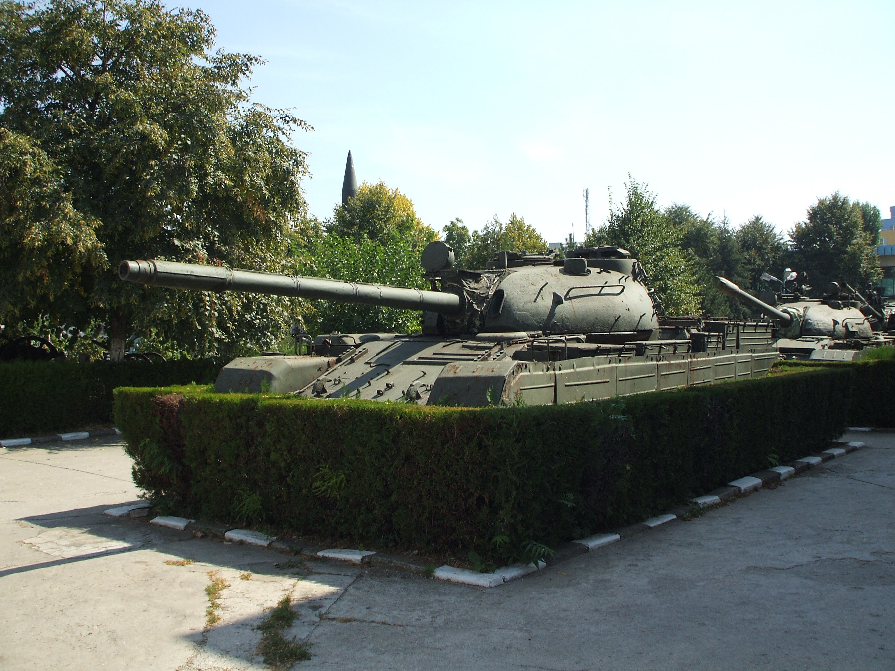 A TR-800 tank on display at King Ferdinand National Military Museum